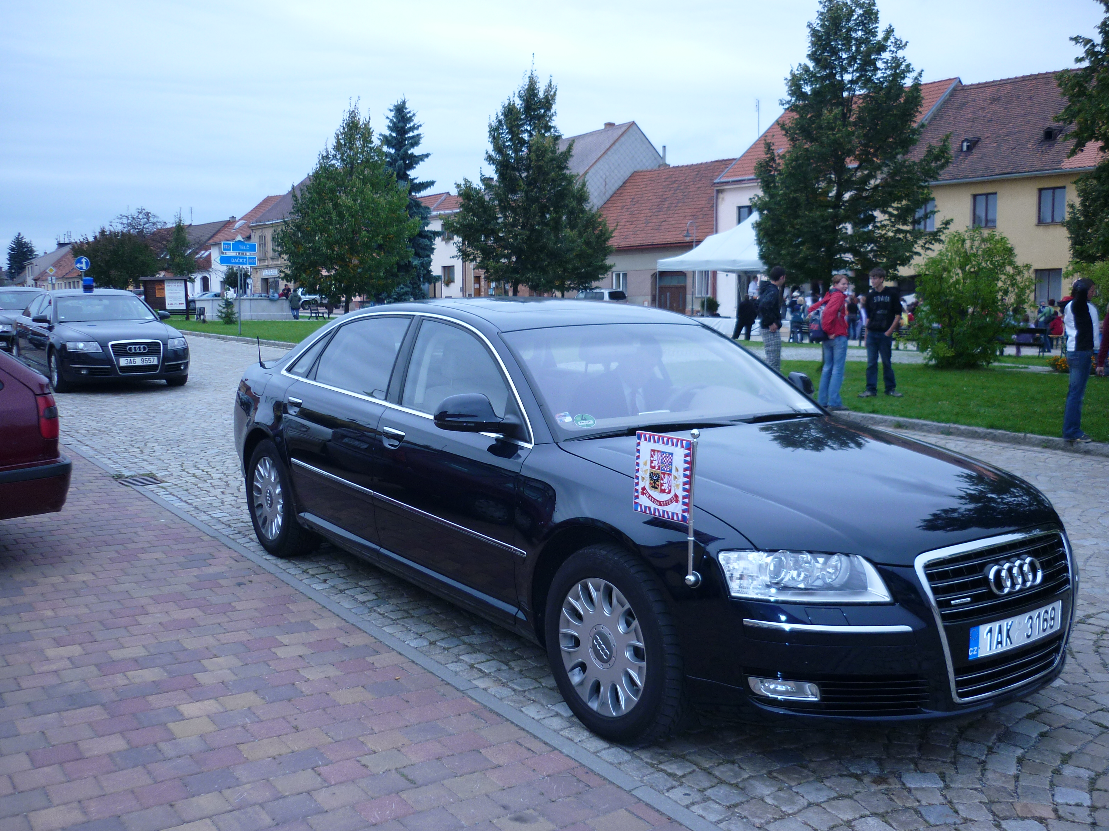 Foto by Havel1997 in Nová Říše